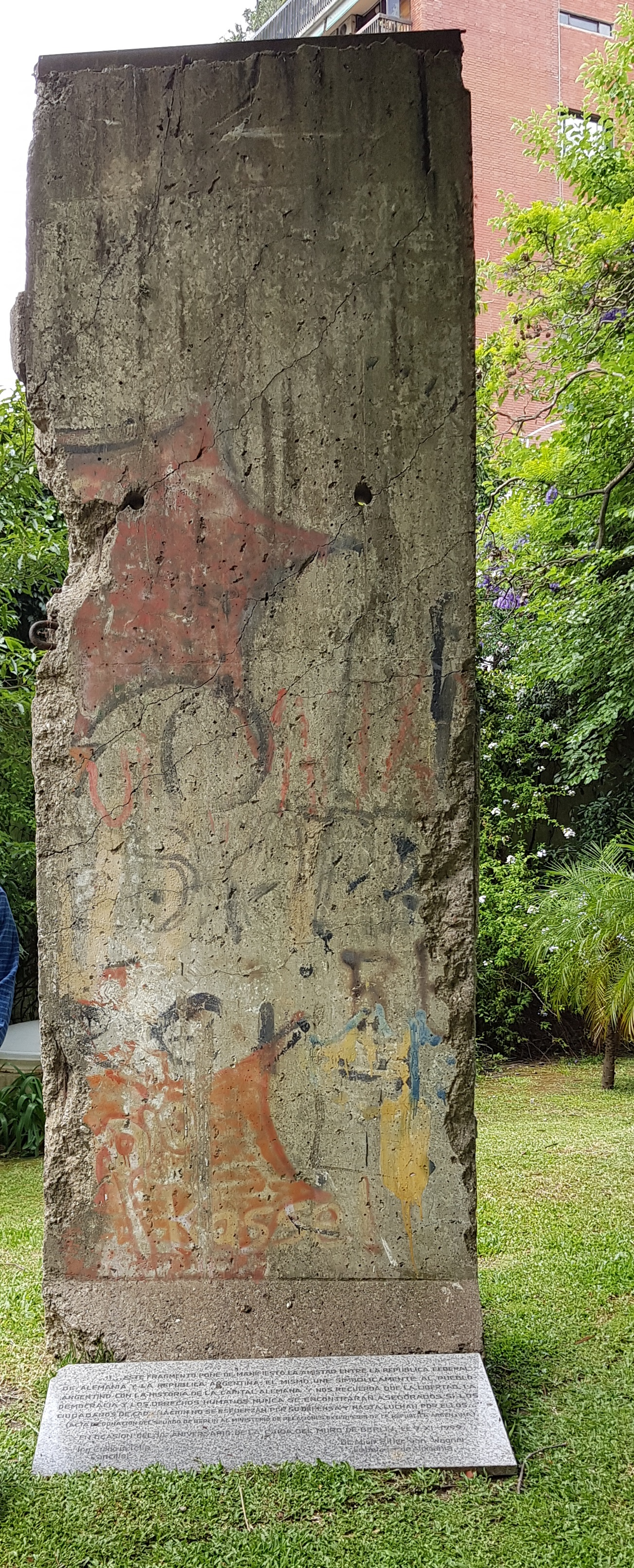 A portion of the Berlin Wall in San Martin Palace in Buenos Aires, Argentina. It was a gift of Germany to Argentina in the 90s.